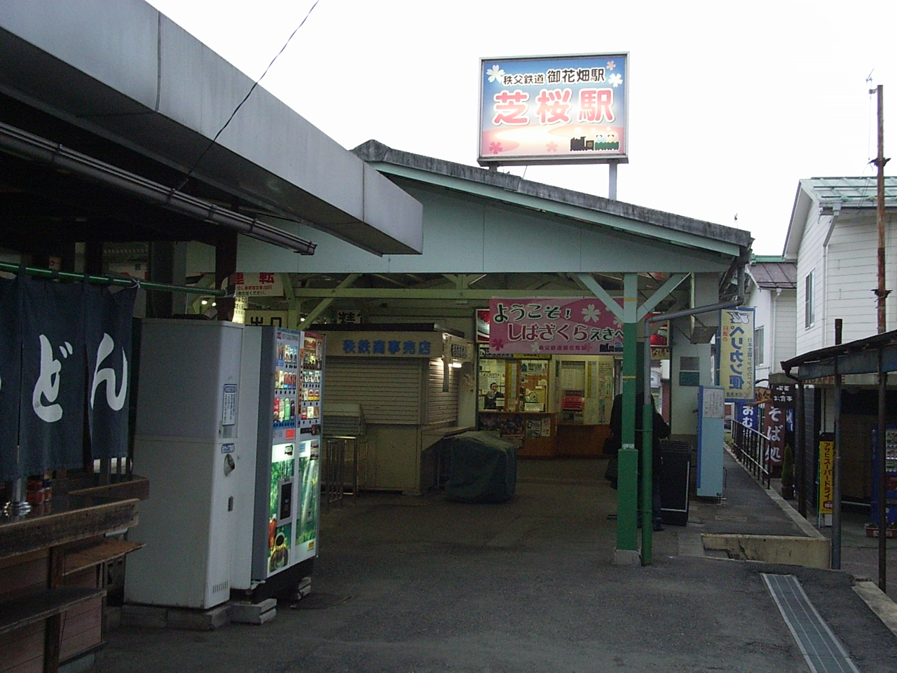 Ohanabatake (Shibazakura) Station on the Chichibu Main Line in Chichibu, Saitama, Japan